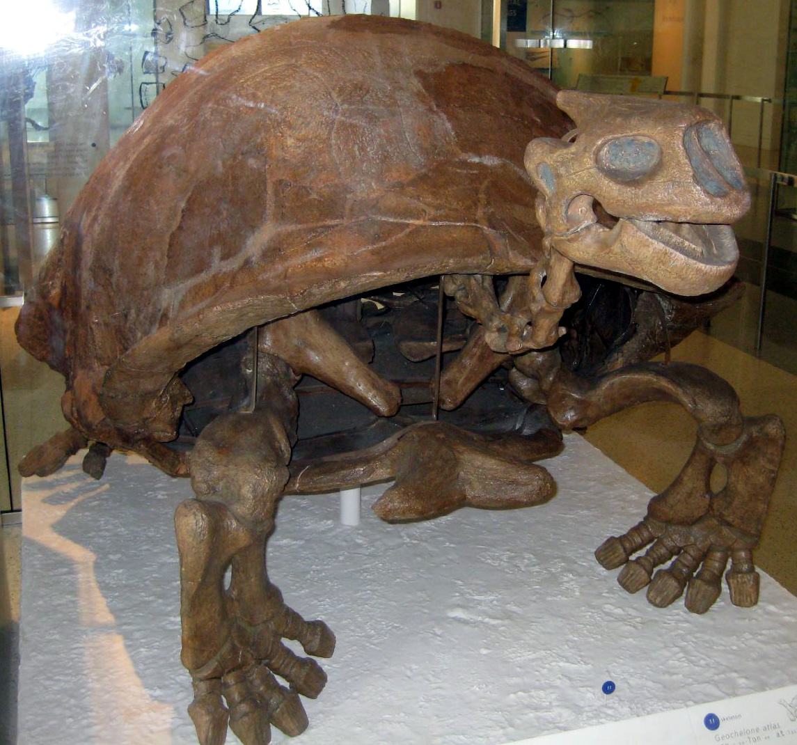 Skeletal mount of Megalochelys atlas specimen AMNH 6332.